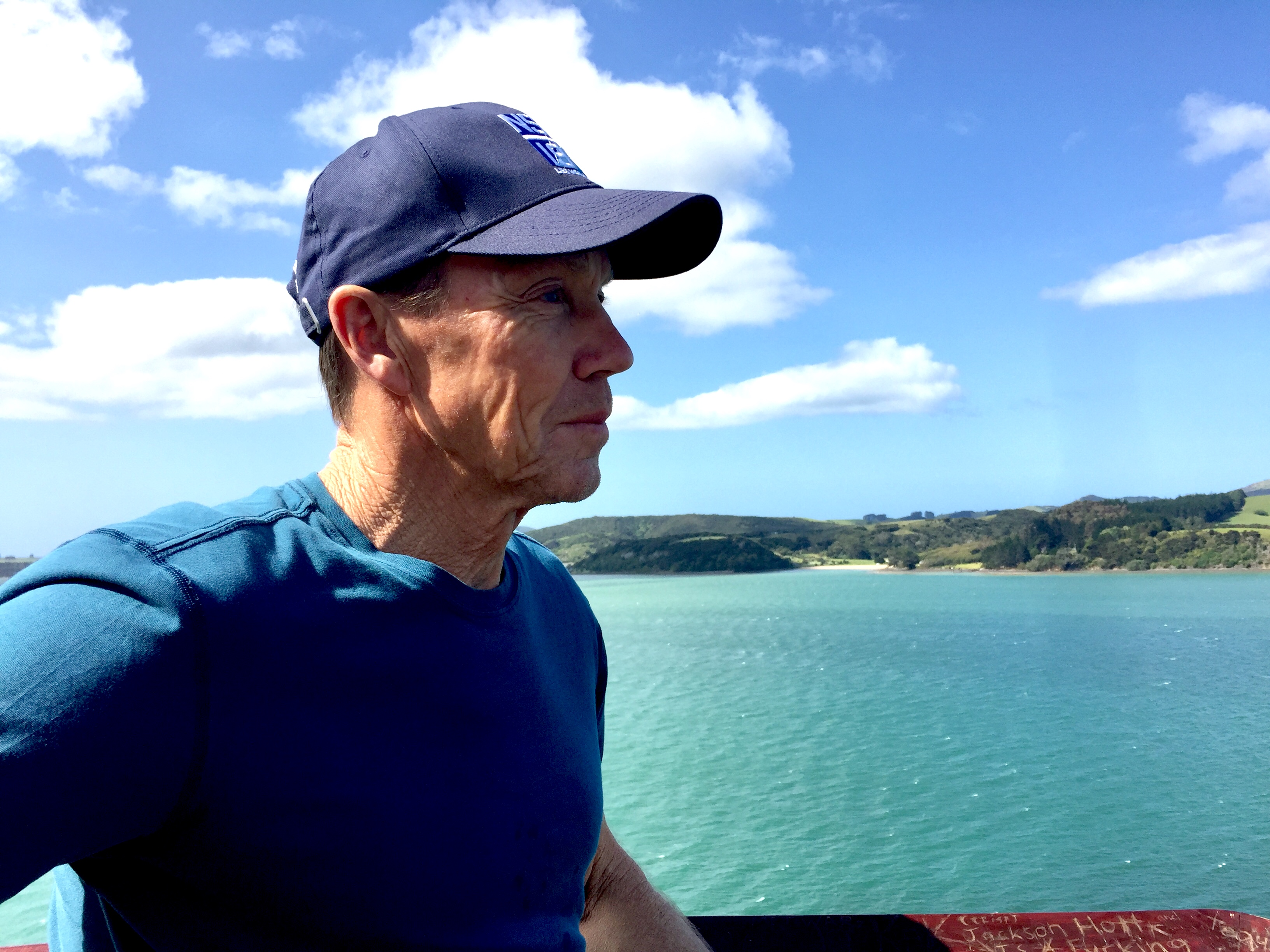 Alan Smith, New Zealand, 2019